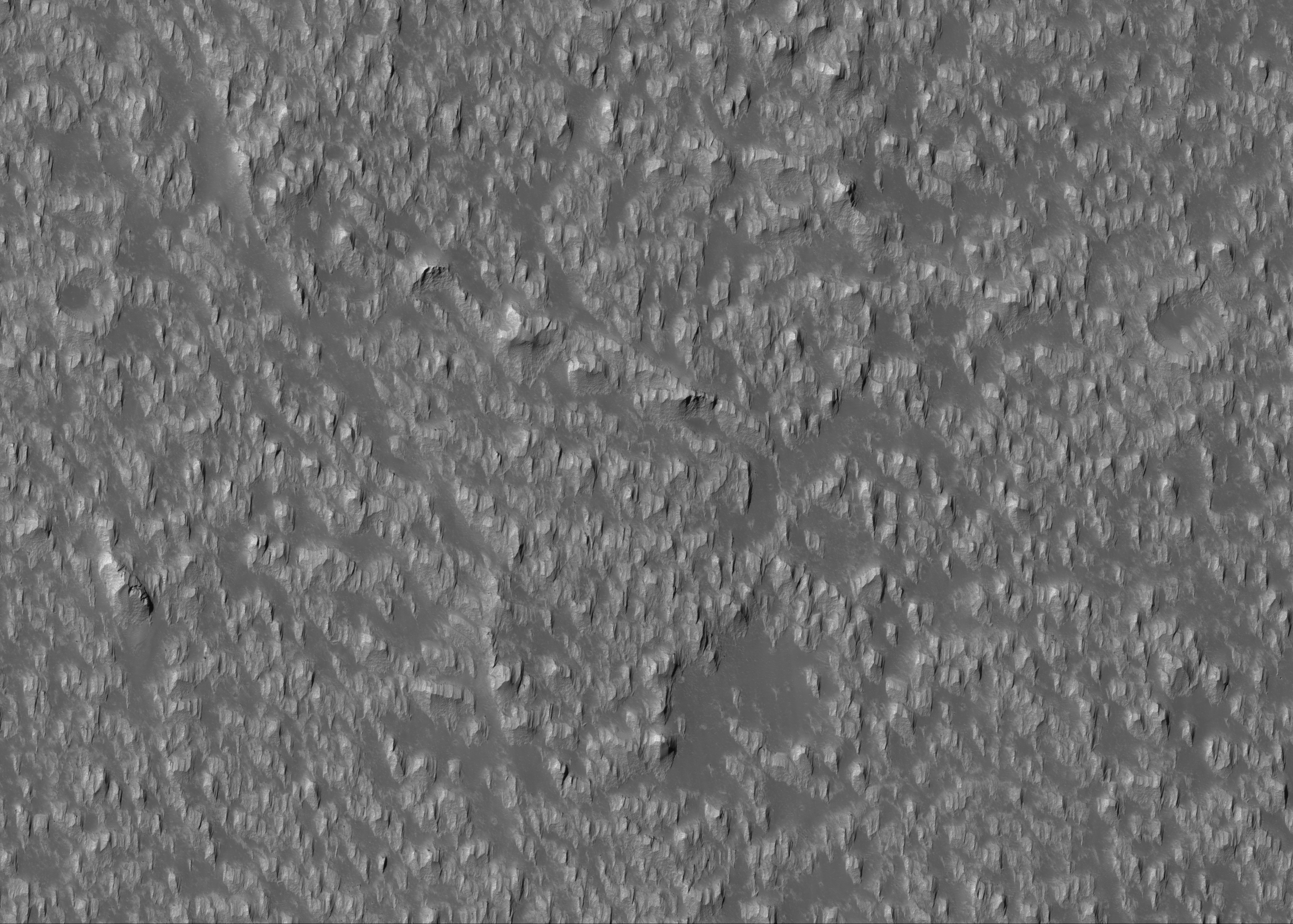 A lava flow in Daedalia Planum on Mars.